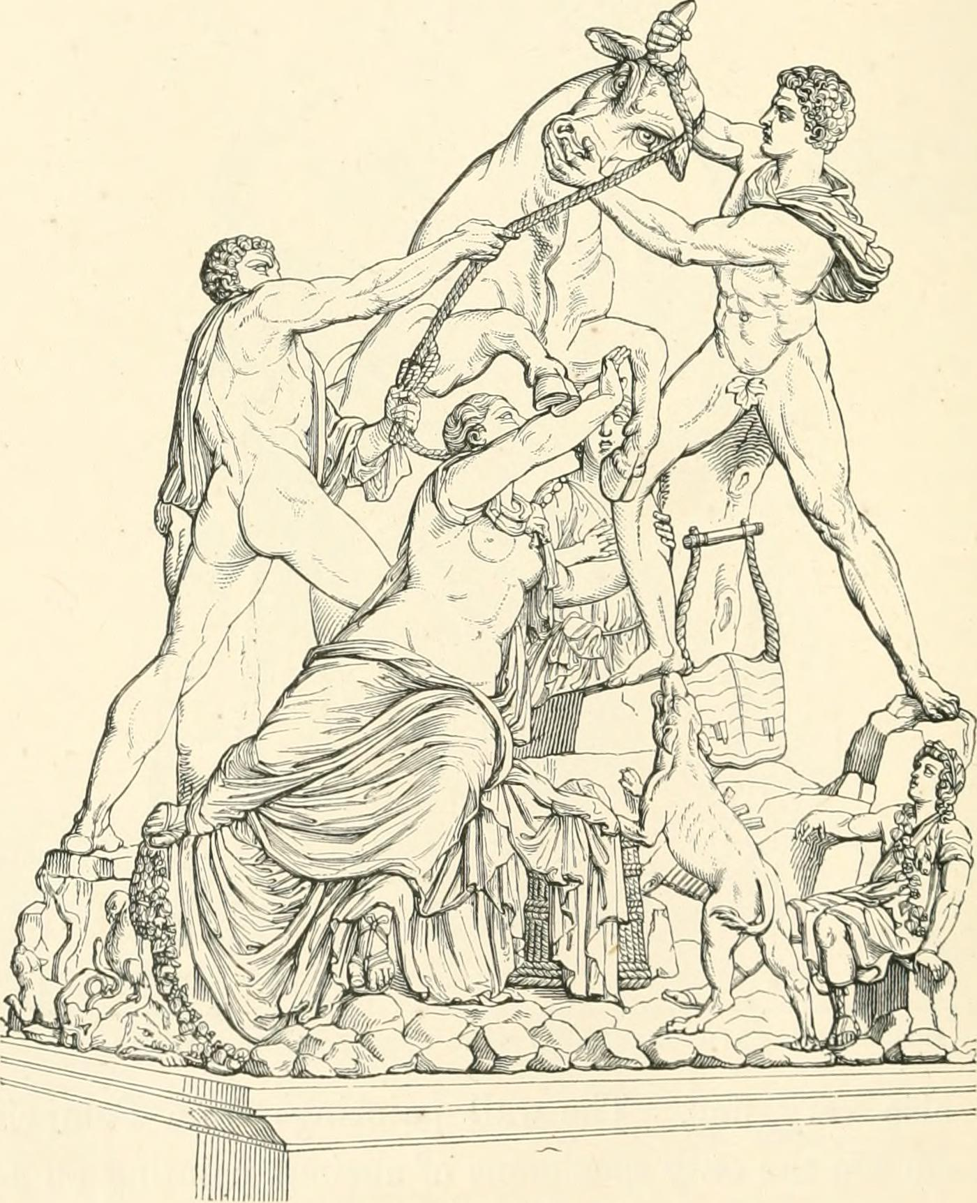 Title: South by east : notes of travel in southern Europe Year: 1877 (1870s) Authors: Rodwell, G. F. (George Farrer), b. 1843 Subjects: Europe, Southern -- Description and travel 1871-1918 Publisher: London : M. Ward & Co. Text Appearing Before Image: PEKSEPHONE ENTHRONED. PAINTING FKOM POMPEII. NAPLES. vases are also very fine. The wall paintings from Pompeii andHerculaneum are the only specimens of ancient painting on a largescale which exist; the small paintings on vases, generally of one 144 Naples. colour, are the only other examples in the world. They prove to usthat the art of painting was well understood by the ancients. Someof the pastoral pieces possess a grace and delicacy which we couldscarcely have looked for at the period. The interiors of all theprincipal houses in Pompeii were painted, often with great skill andtaste. MahafFy (Rambles and Studies in Greece, 1876) justlysays of the Pompeii wall-paintings :— Though they are onlythe wall decorations of a second-rate mongrel Greek town,there are both grace and power in many of the figures. Thecolouring is bright and life-like, and the faces full of expression. Text Appearing After Image: FARNESE BULL. NAPLES. The Museum. 145 A few good mosaics were also found in the city, and arepreserved in the Museum. In the Gallery of Inscriptions thereexist two of the finest pieces of sculpture in the world; theFarnese Hercules from the Baths of Caracalla in Kome, and theFarnese Bull. This latter is an incomparable work, by the